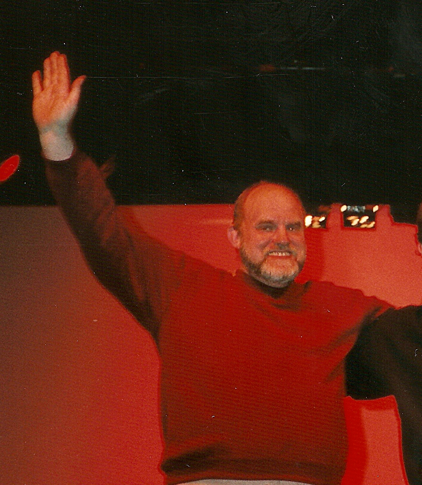 Robert John Godfrey at an Enid concert in 1998